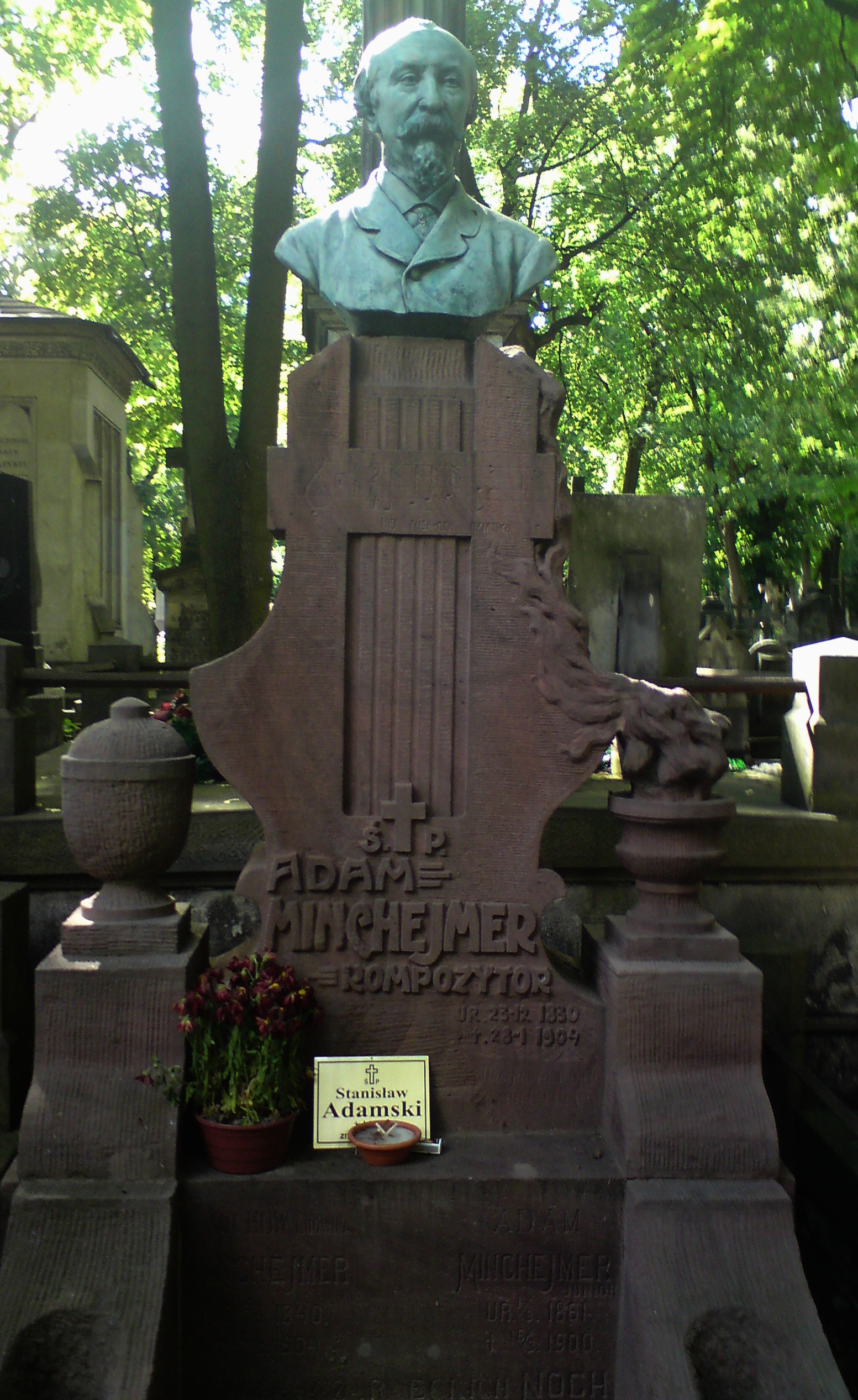 Adam Minchejmer (Adam Münchheimer) tombstone, Powazki Cementery, Warsaw